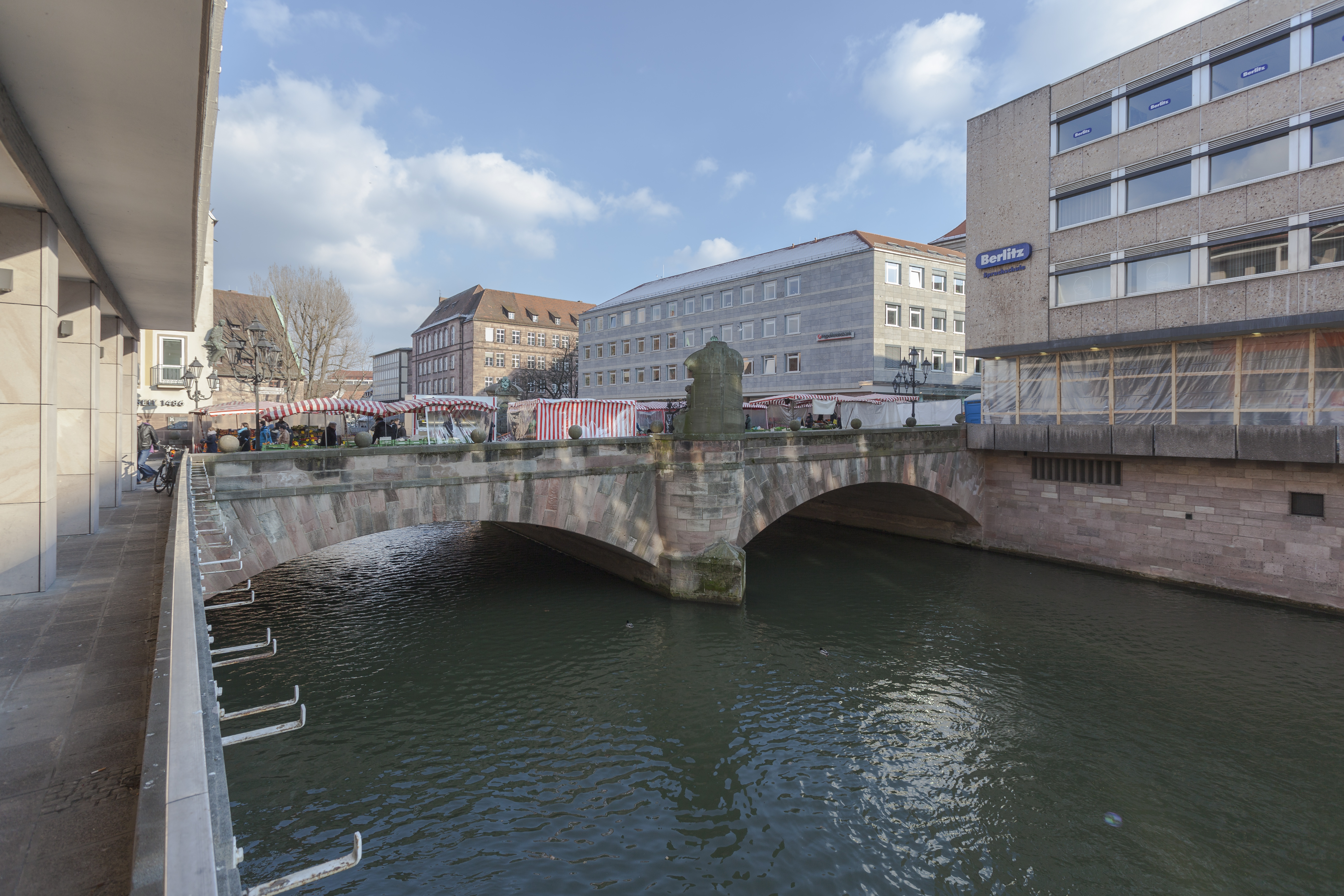 Pegnitz river, Nuremberg, Germany